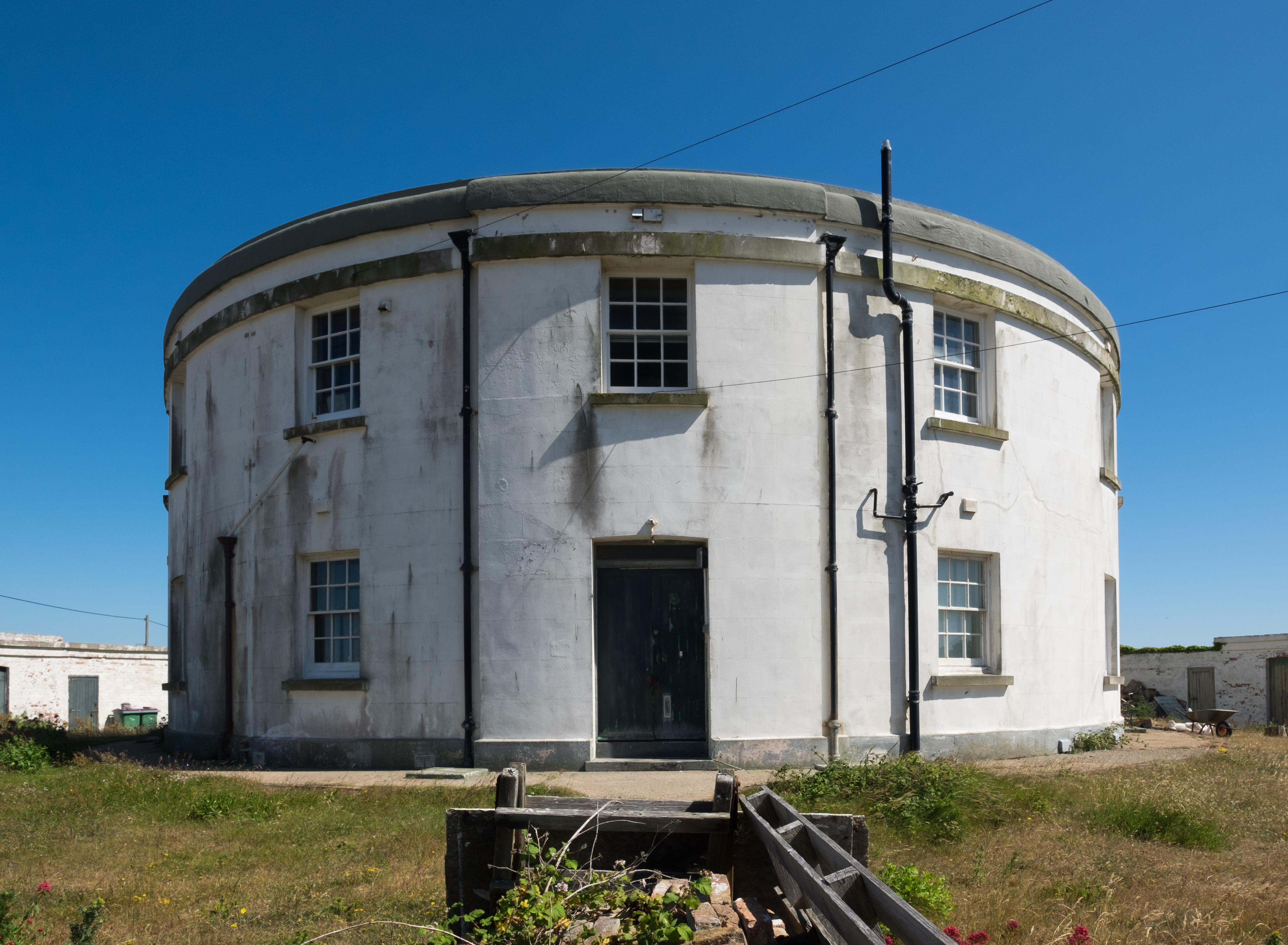 Dungeness Lighthousemen's Dwellings. These dwellings were created from the first two storeys of the 1792 lighthouse which had its upper storeys demolished after a new lighthouse was built in 1904. This is a grade II listed building in England.